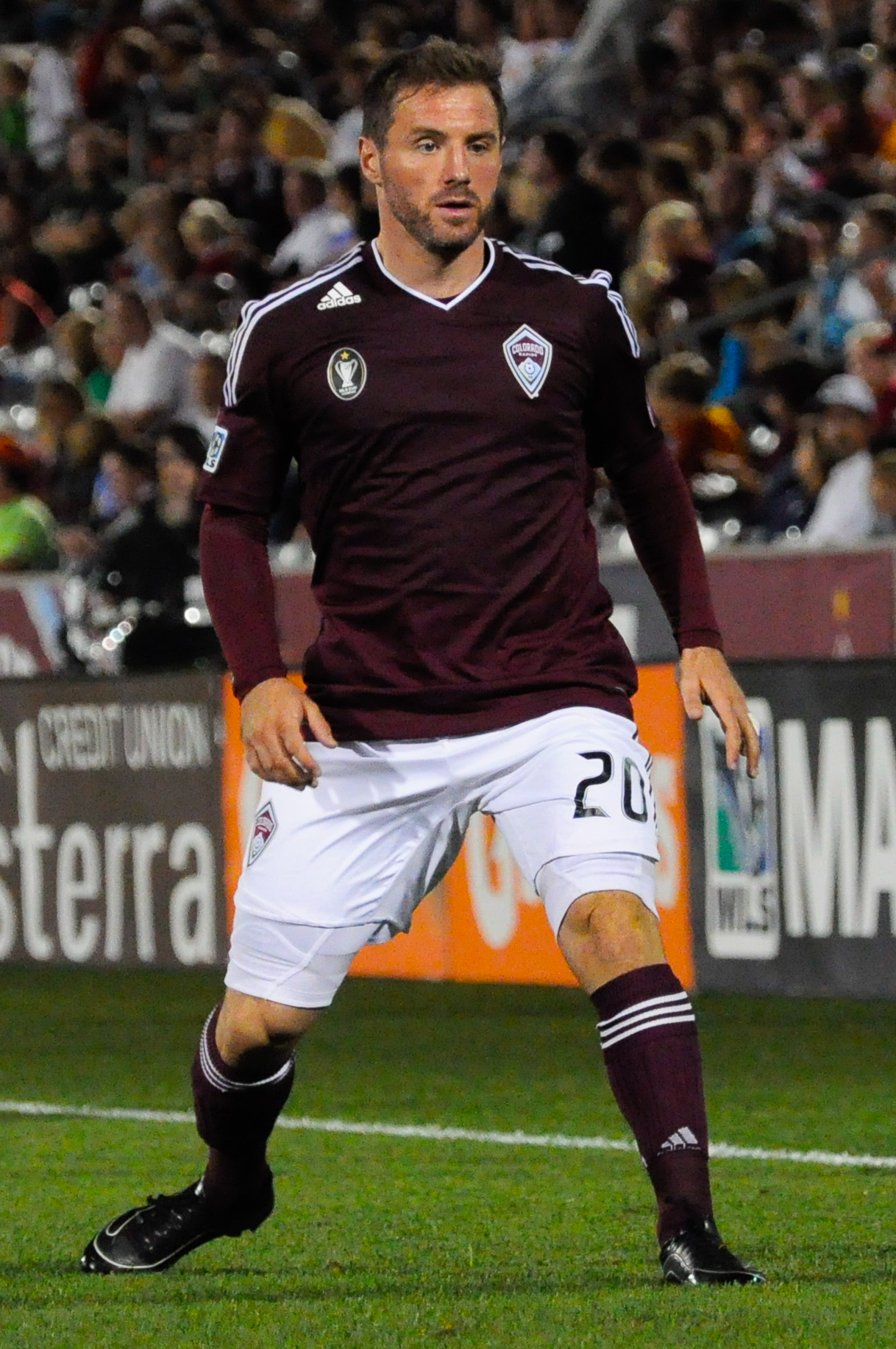 Photo of Jamie Smith while playing with the MLS team, Colorado Rapids in 2011.